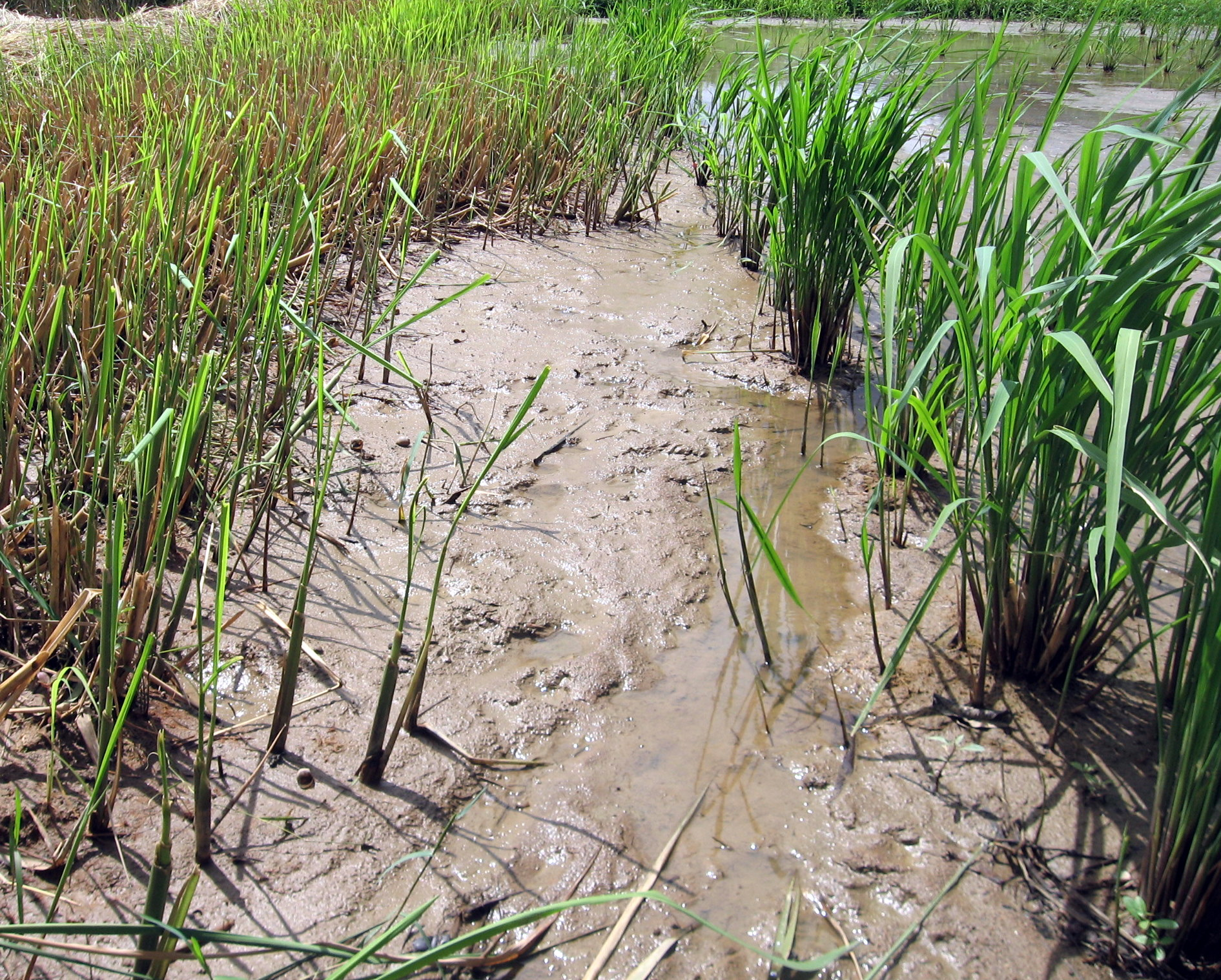 Rice plants regrowing from rhizomes. Rhizome genes were donated by Oryza longistaminata through wide hybridization. Plants on the left are more than one year old. Plants on the right were transplanted as seedlings a few months before the photo was taken. These plants were in a rice breeding nursery belonging to the Yunnan Academy of Agricultural Sciences near Xishuangbanna, Yunnan Province, PRC.